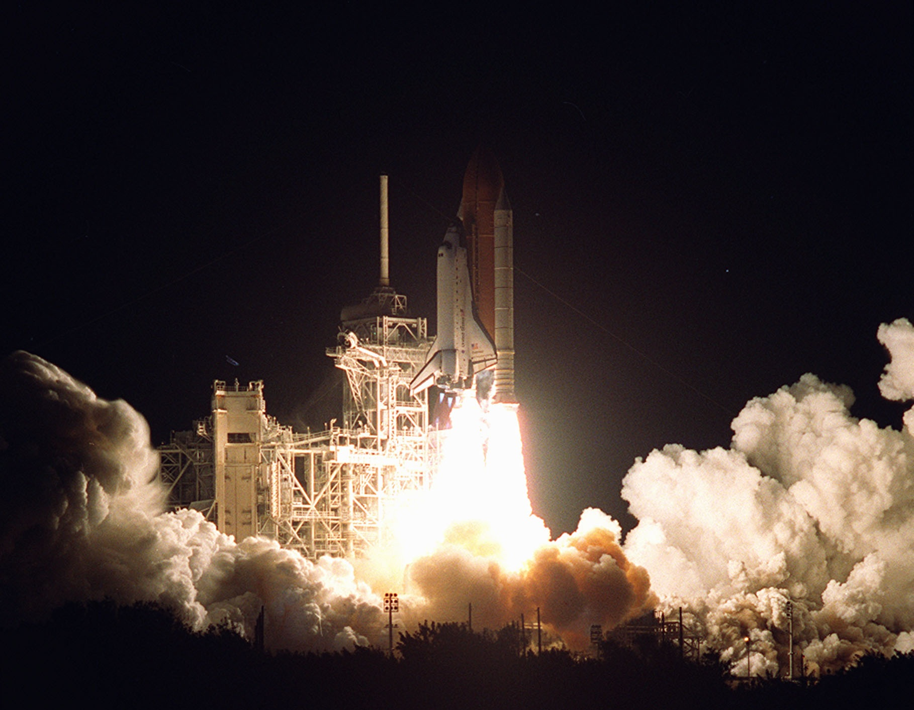 Nearby waters capture the brilliance of Space Shuttle Endeavour's flames as it leaps off Launch Pad 39B toward space. Liftoff of Endeavour occurred at 10:06:01 p.m. EST. Endeavour is transporting the P6 Integrated Truss Structure that comprises Solar Array Wing-3 and the Integrated Electronic Assembly, to provide power to the Space Station. The 11-day mission includes two spacewalks to complete the solar array connections. Endeavour is expected to land Dec. 11 at 6:19 p.m. EST.